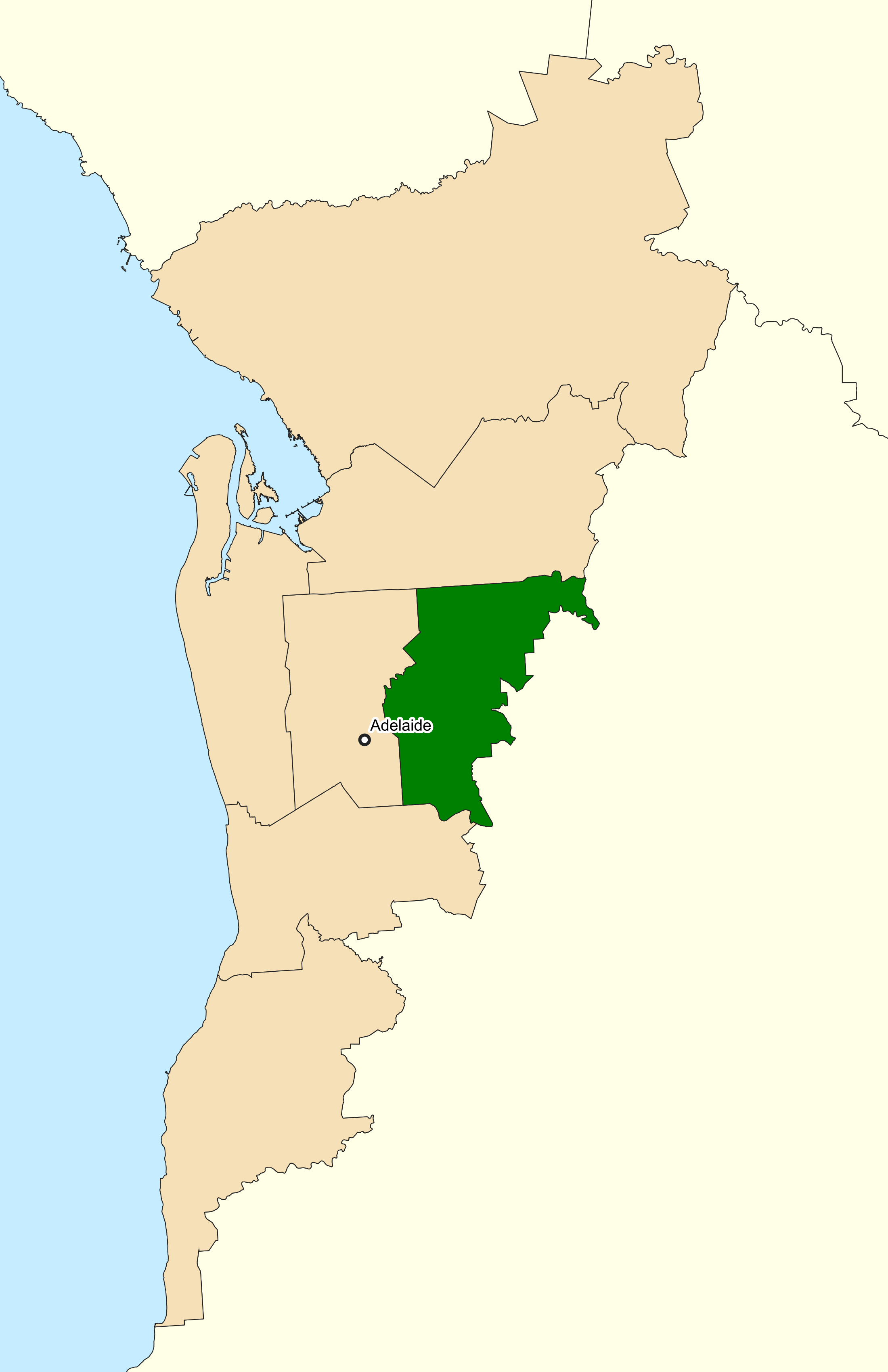 Location of the Australian federal electoral division of Sturt (dark green) in Greater Adelaide, South Australia as of the 2019 Australian federal election. Incorporates or developed using Administrative Boundaries ©PSMA Australia Limited licensed by the Commonwealth of Australia under Creative Commons Attribution 4.0 International licence (CC BY 4.0).